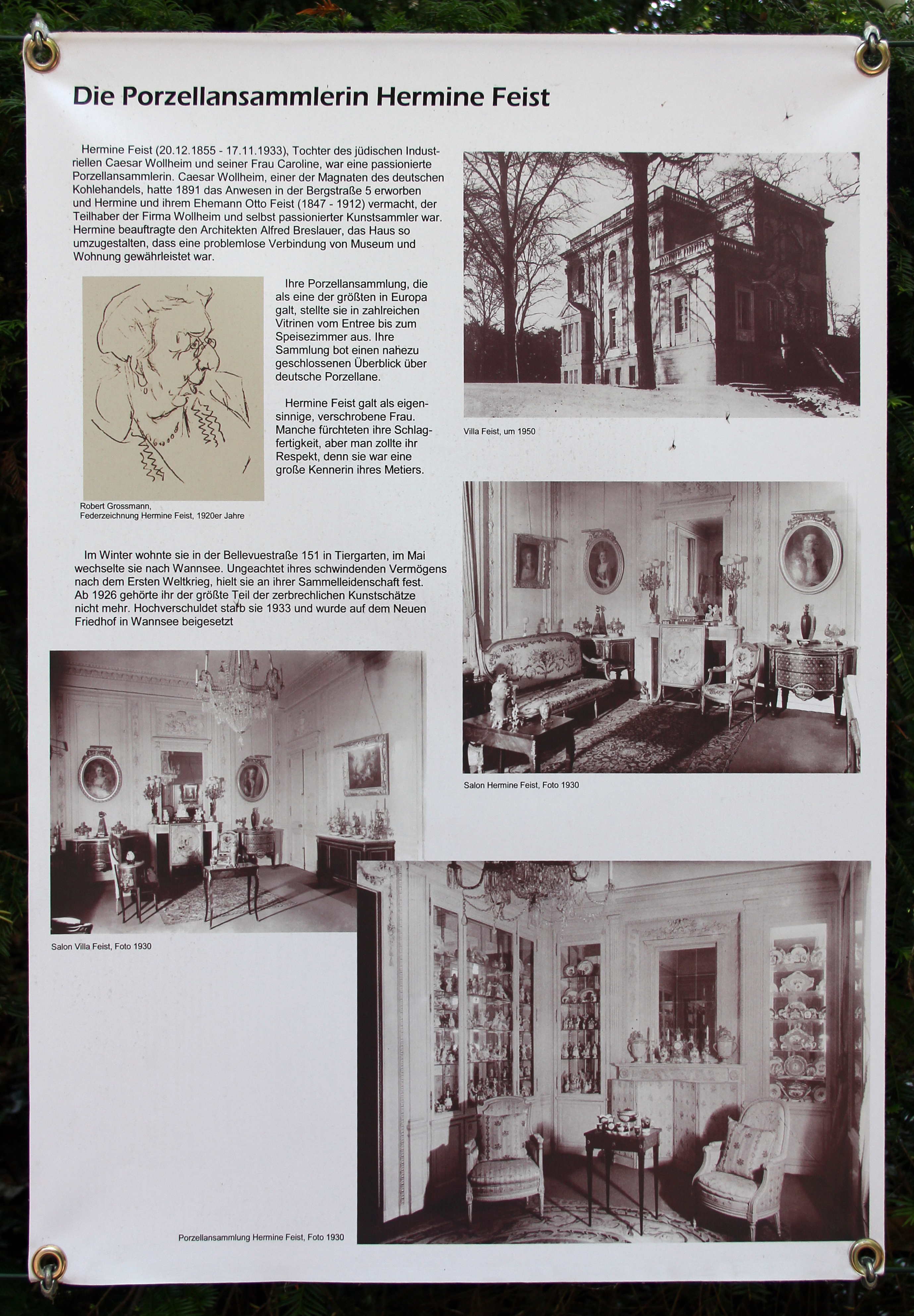 Memorial plaque, Hermine Feist, Am Großen Wannsee 58, Berlin-Wannsee, Germany